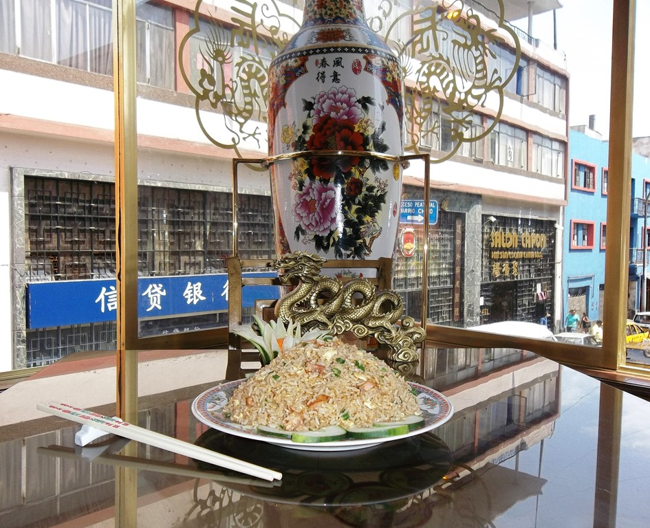 A plate of fried rice in the traditional Chinese restaurant Ton Kin Sen Chinatown (Capon Street) Lima - Peru.